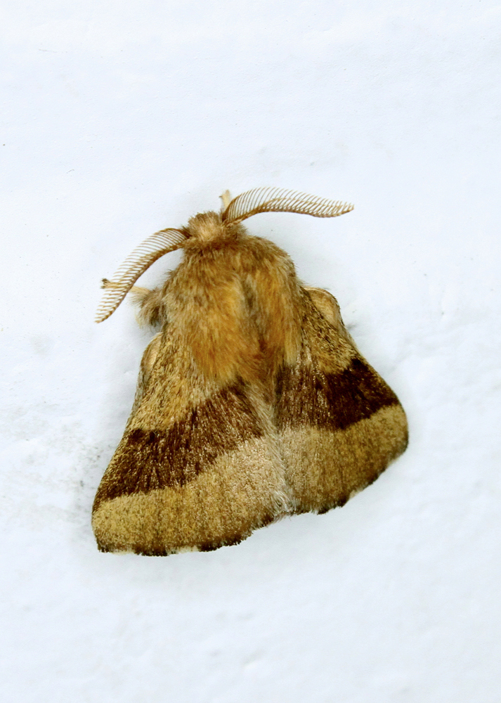 Malacosoma disstria moth near Cincinnati, OH. Photo by Greg Hume